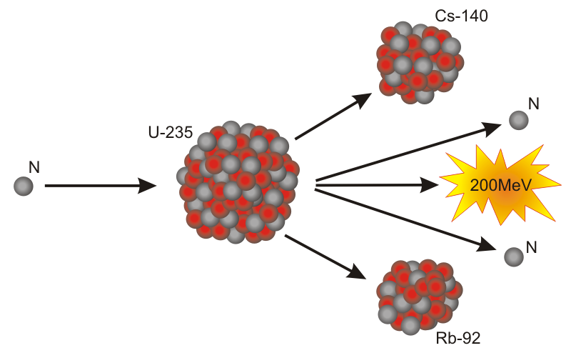 Corefission of Uranium 235 (note: the neutron symbol should be 'n', 'N' being nitrogen ; Kernspaltung.svg is correct)